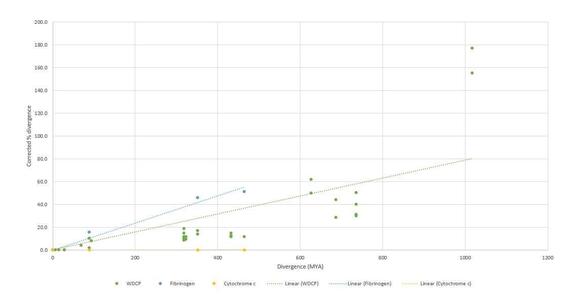 Data obtained from NCBI Blast, TimeTree